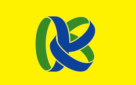 Flag of Kasama Ibaraki